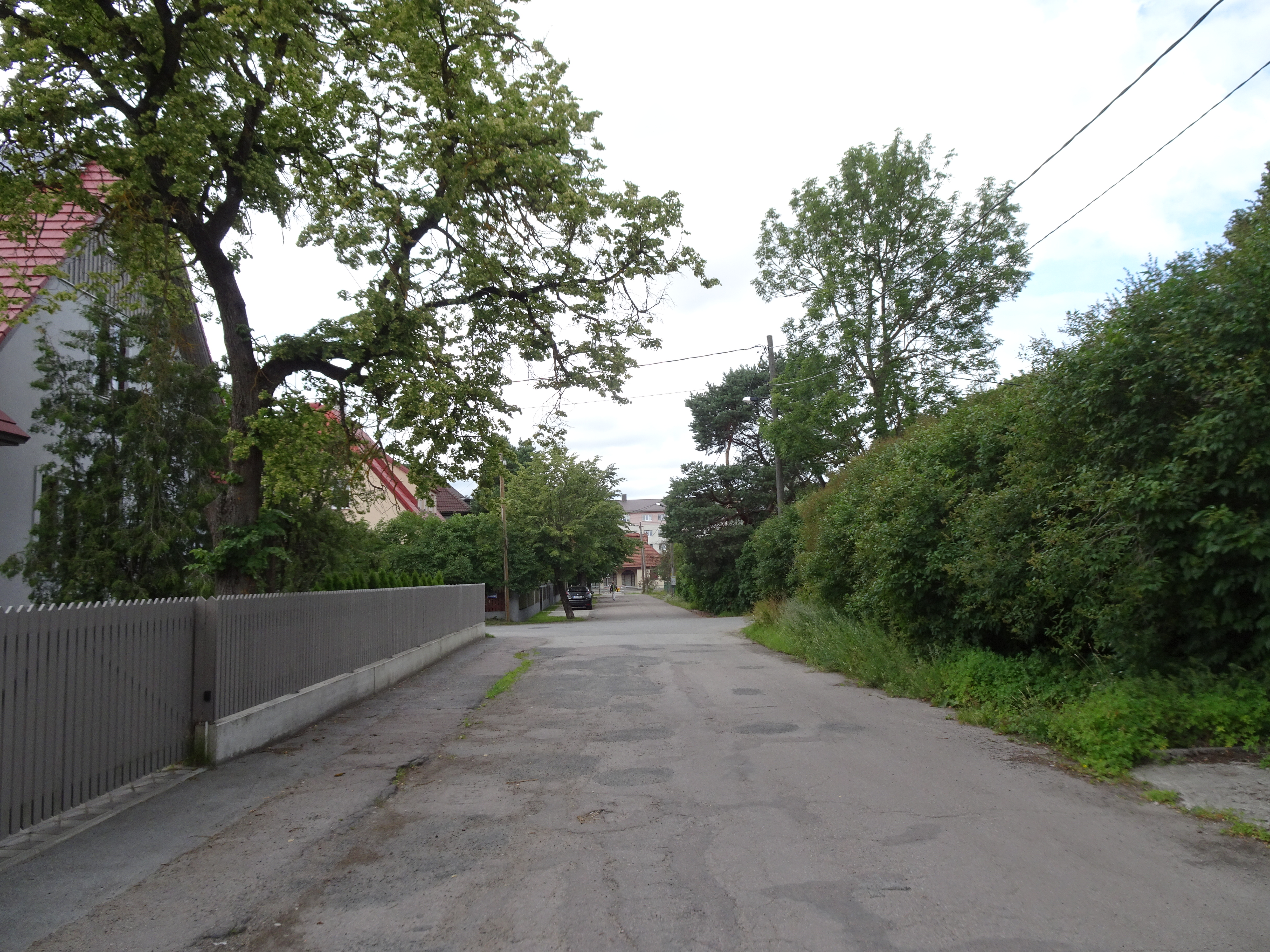 Virve Street in Tallinn, Järve